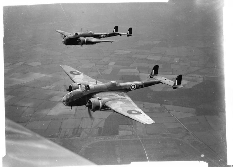 Aircraft of the Royal Air Force 1939-1945- Handley Page Hp.52 Hampden and Hereford. Hampden Mark Is, AE257 ‘KM-X’ and AE202 ‘KM-K’, of No. 44 Squadron RAF based at Waddington, Lincolnshire, in flight. Both aircraft were lost on raids over Germany, AE257 on the night of 21/22 October 1941 flying to Bremen, and AE202 over Hamburg on 26/27 July 1942.